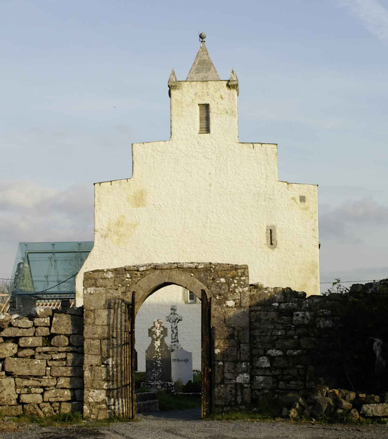 Kilfenora Cathedral, Co. Clare, Ireland, Danny Burke